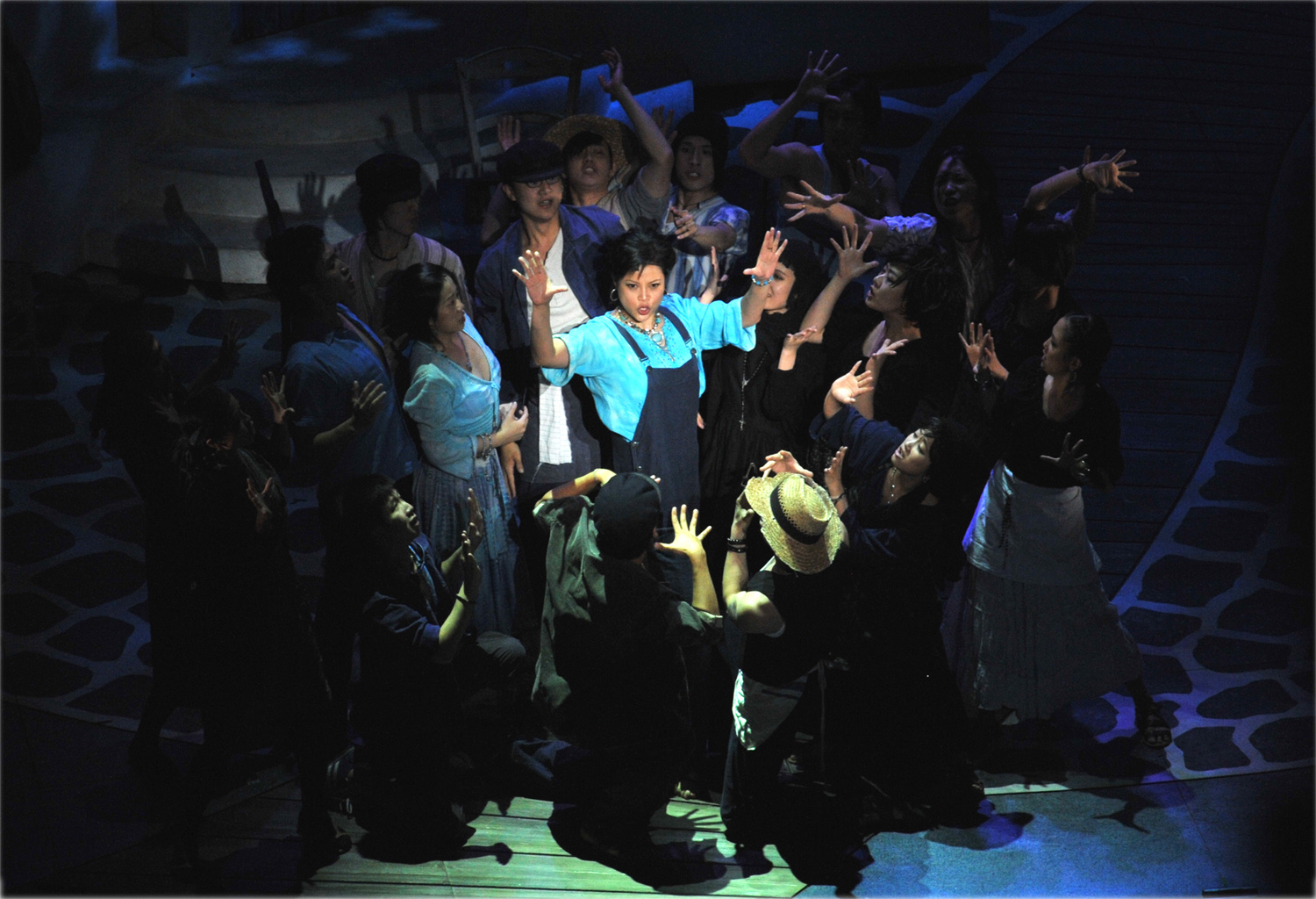 Mamma Mia Chinese production picture 02